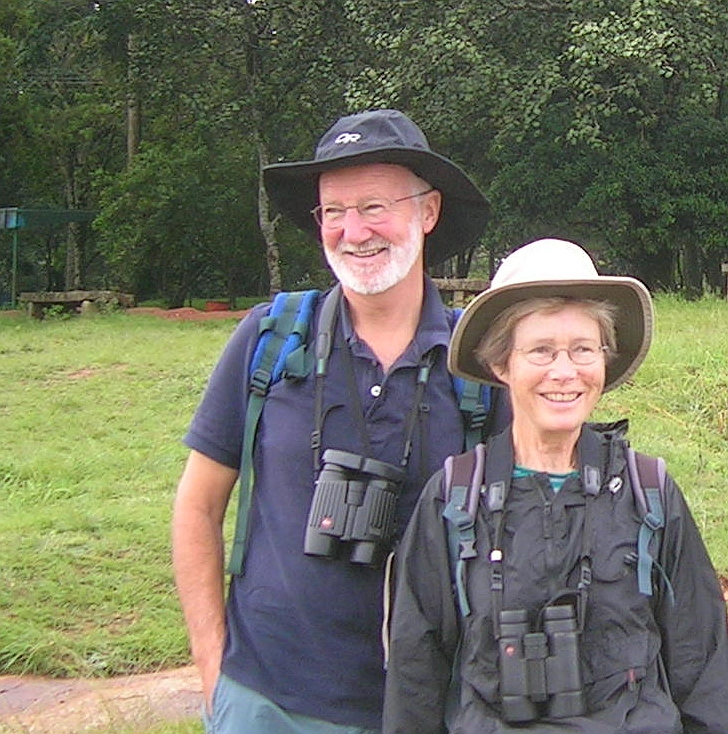 Professor Nick B Davies, FRS and his wife. Photograph taken by L. Shyamal on a birding trip to the Nandi Hills near Bangalore